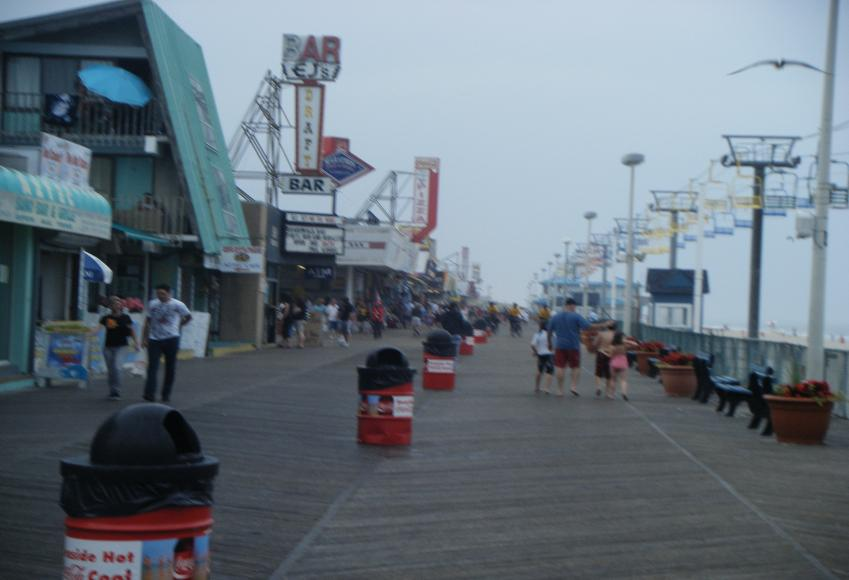 A view of the boardwalk in Seaside Heights, New Jersey north of Casino Pier